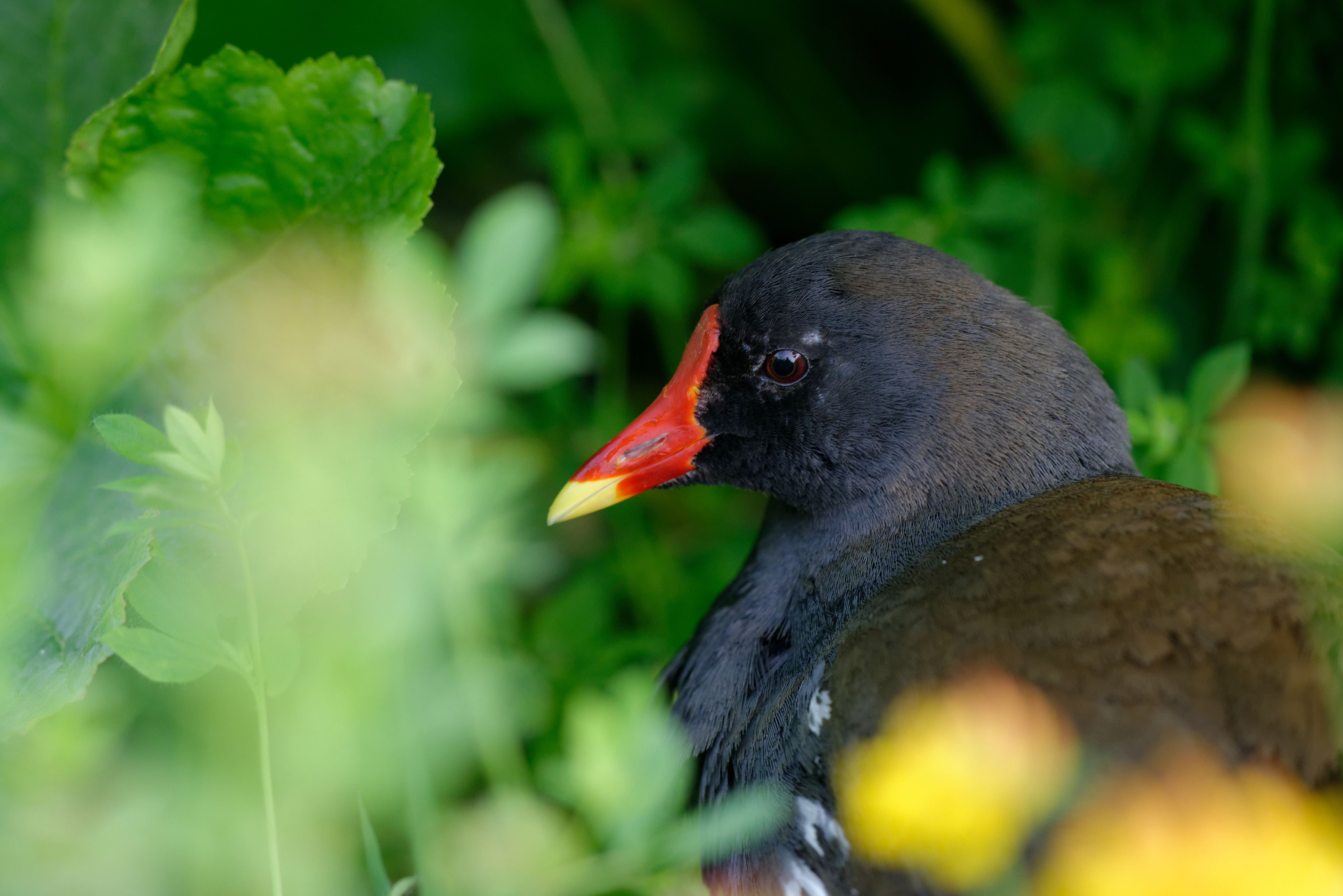 Common Moorhen (Gallinula chloropus) hiding under vegetation in the botanical school of the Jardin des Plantes, Paris.